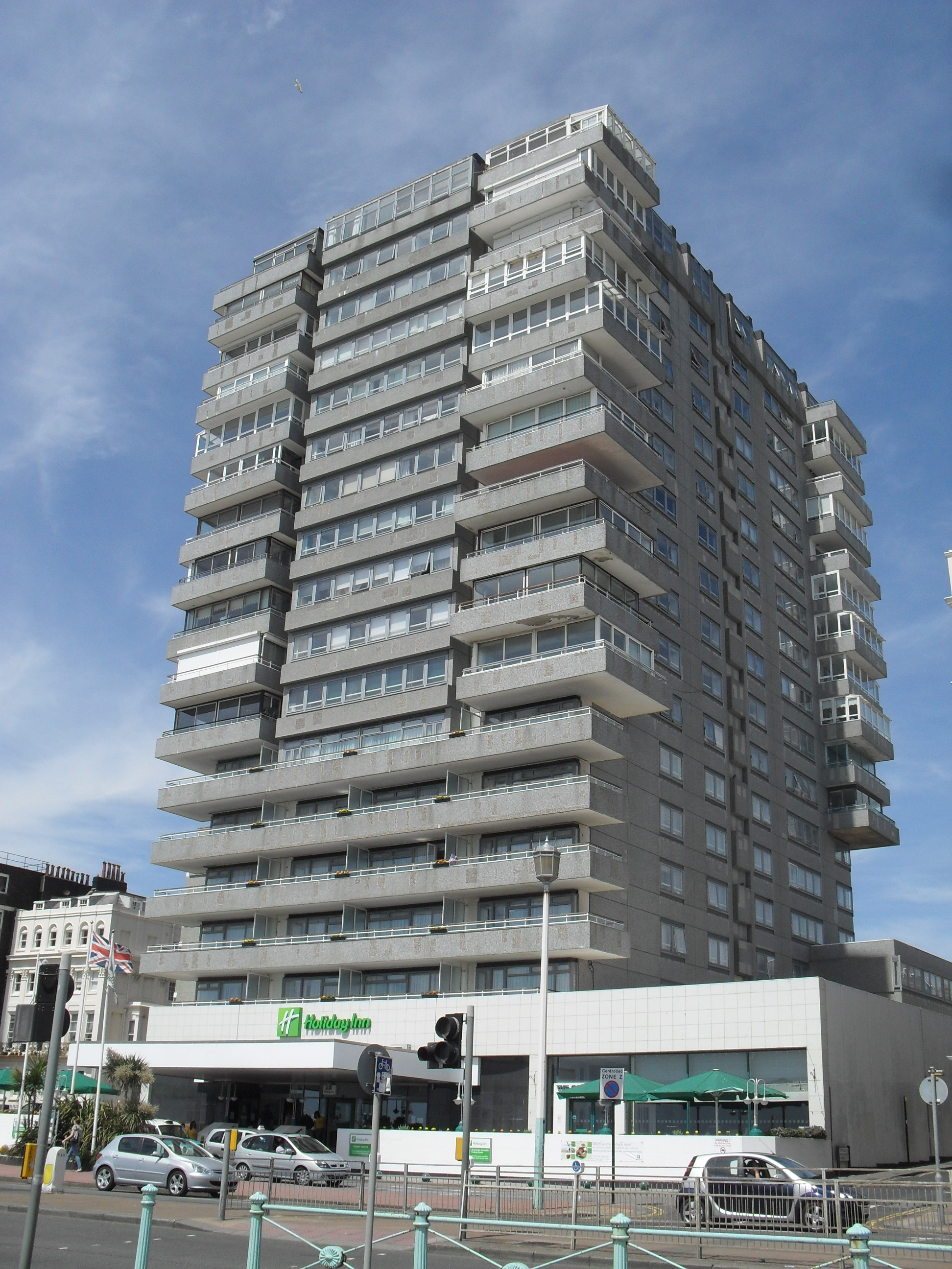 Bedford Hotel (currently branded "Holiday Inn Brighton"), Kings Road, Brighton, City of Brighton and Hove, England. Built in 1967 by Richard Seifert & Partners to replace the old Bedford Hotel on the site; this was built in 1828 and was demolished after a fire in 1964. The upper section is flats ("Bedford Towers").